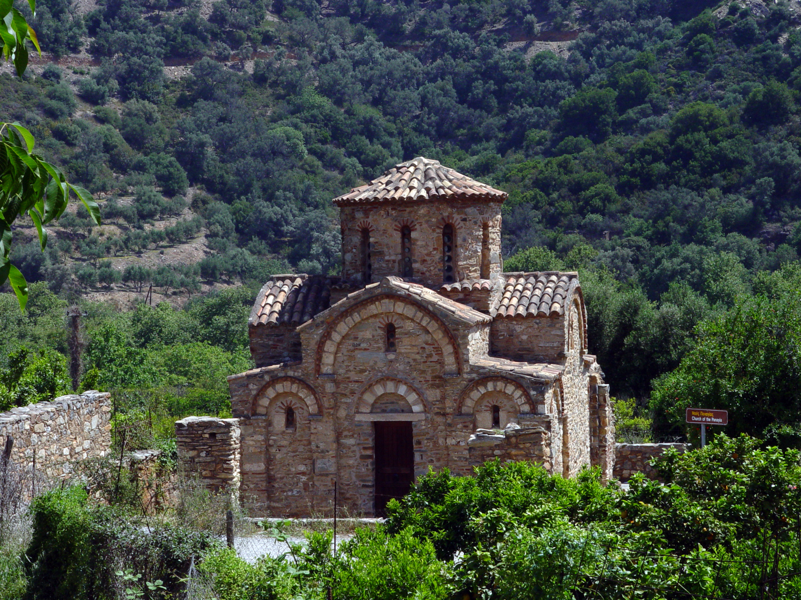 chapel next to birthplace of El Greco, Fodele, Crete, Greece